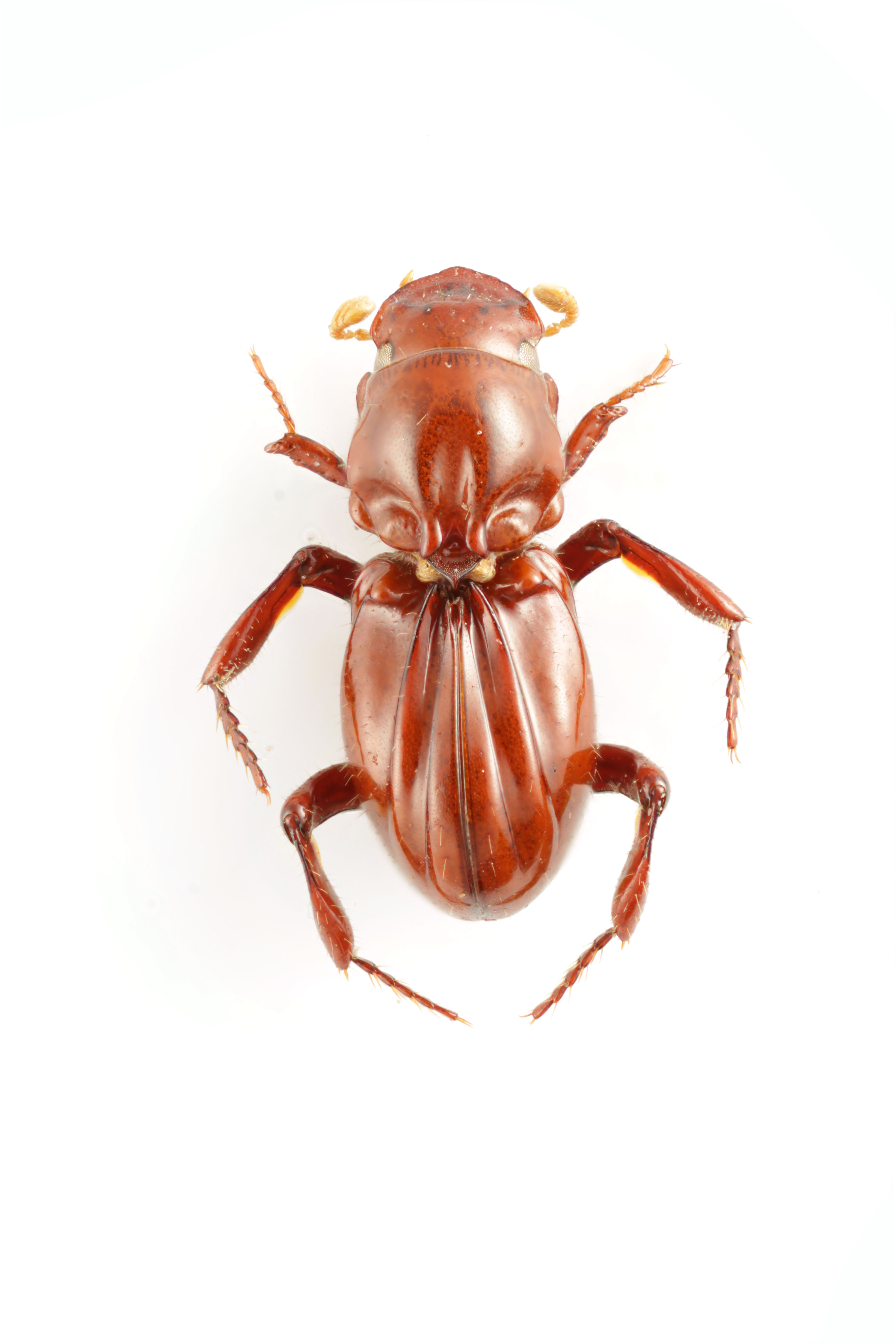 Corythoderus loripes